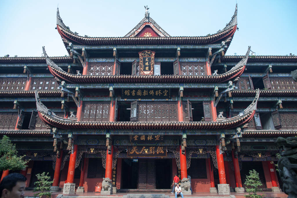 Great Hall of the Wenshu Monastery (文殊院) - Chengdu, Sichuan